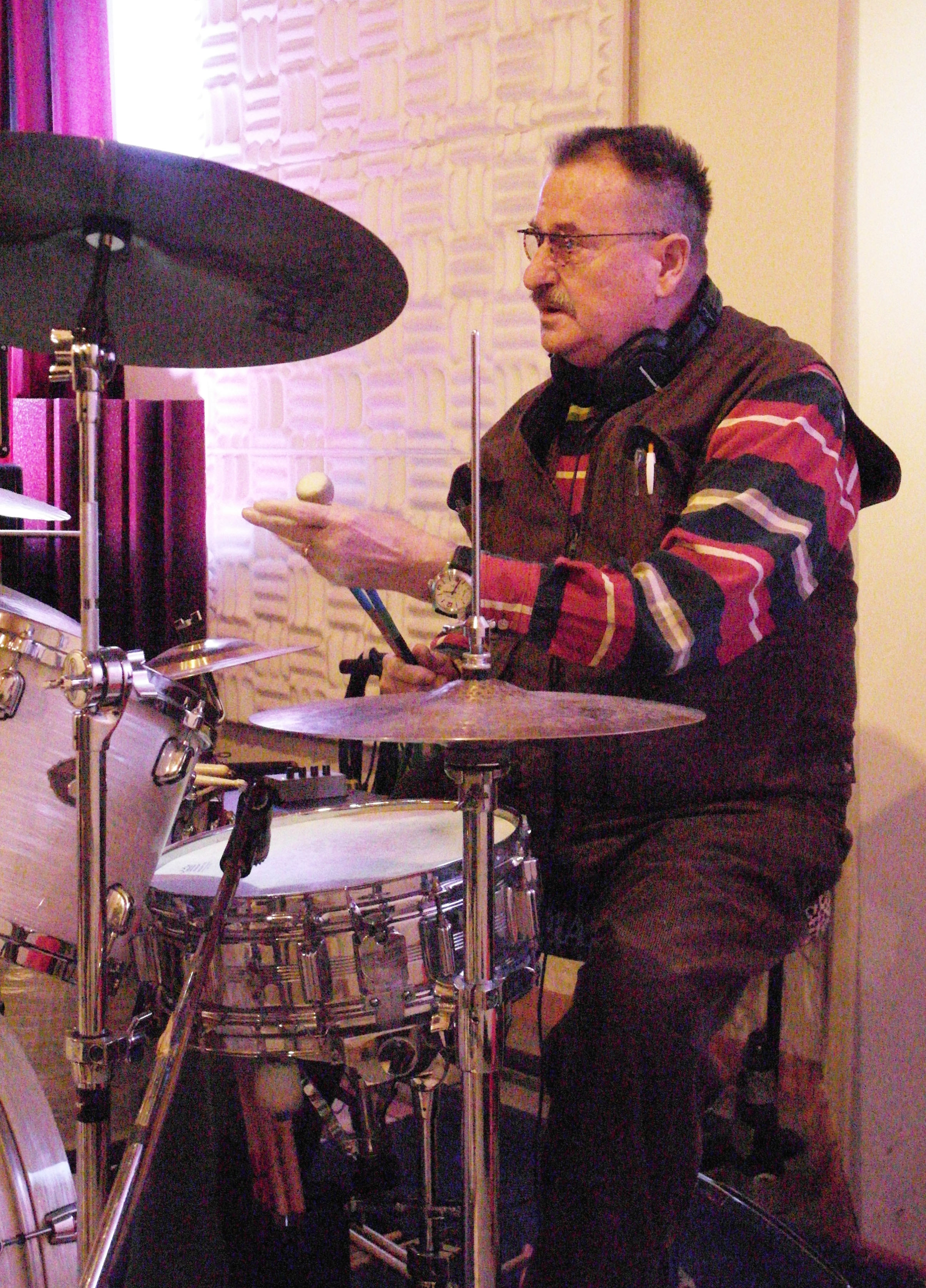 See file name and description in ReformARTsextet. This shot was taken during a recording session. Please note that camera's EXIF time stamp was set to UTC.